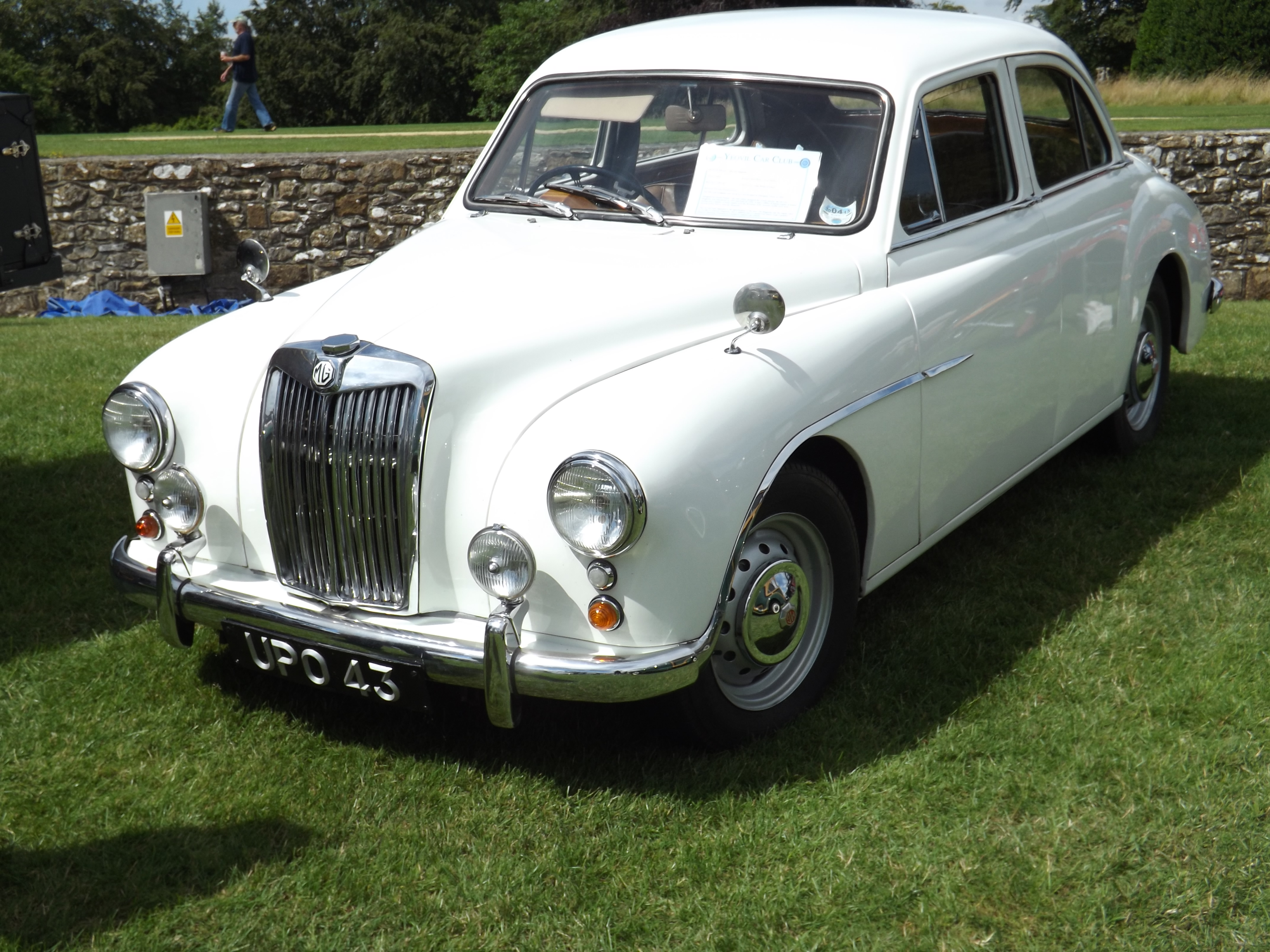 Spotted at Sherborne Classics at the Castle, 20 July 2014